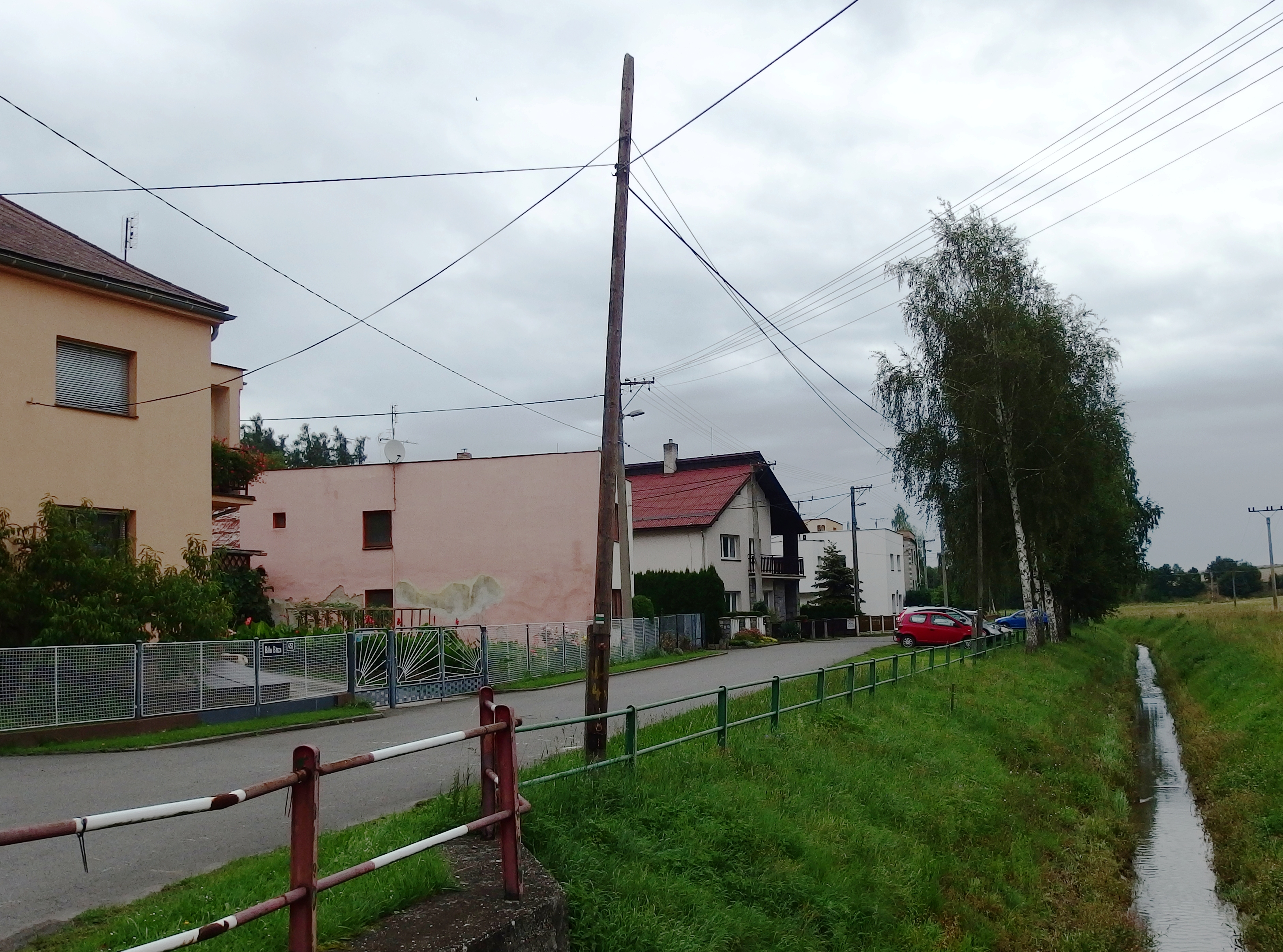 Štěpánkovice, Opava District, Czech Republic, part Bílá Bříza.